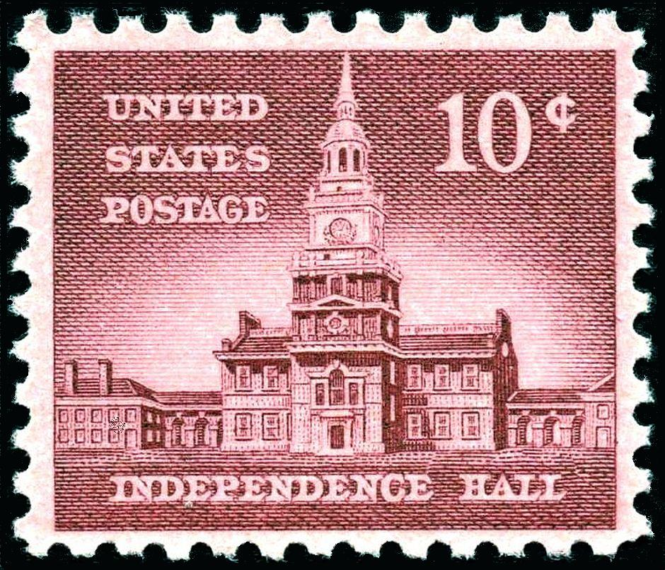 US Postage stamp, 1956 issue, 10c, Independence Hall